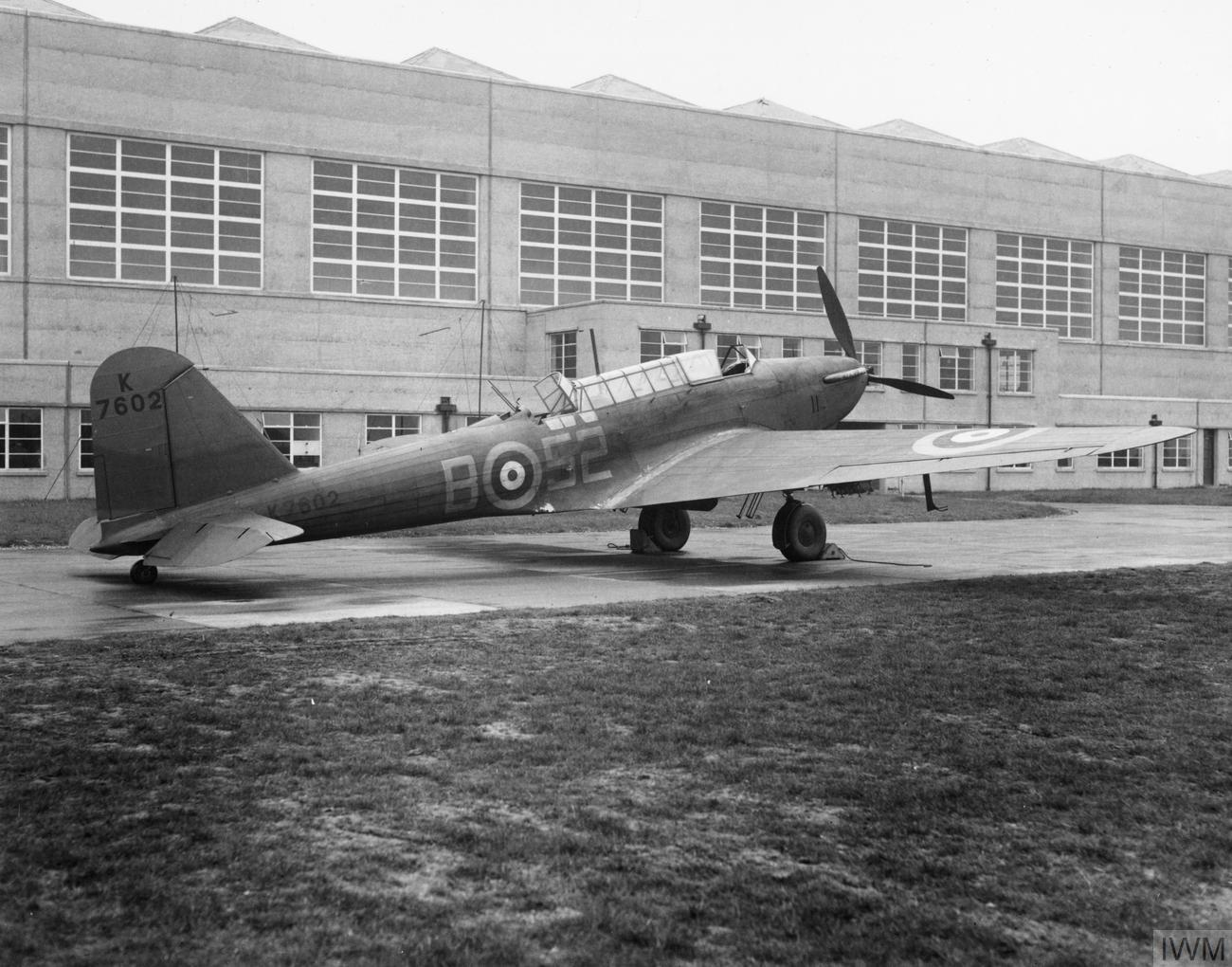 IWM caption : A Fairey Battle Mk.I of 52 Squadron, Royal Air Force, at RAF Upwood.